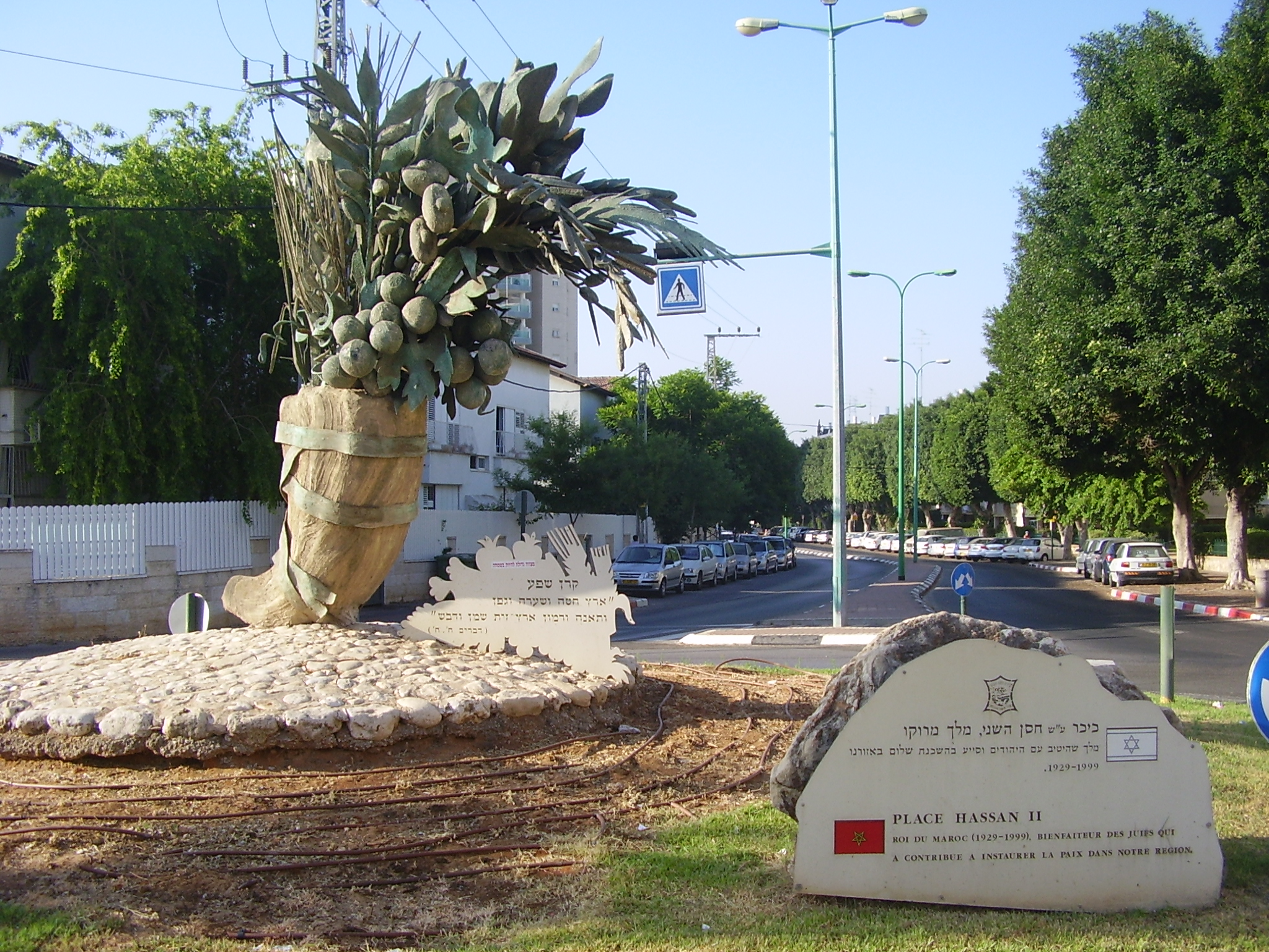 King Hassan